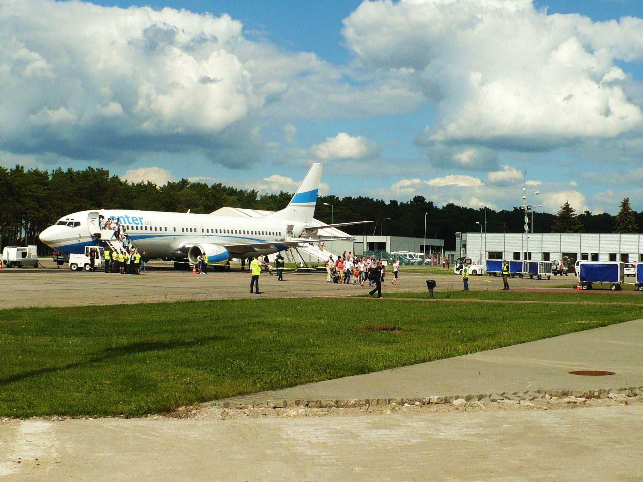 Airport Bydgoszcz-Szwederowo